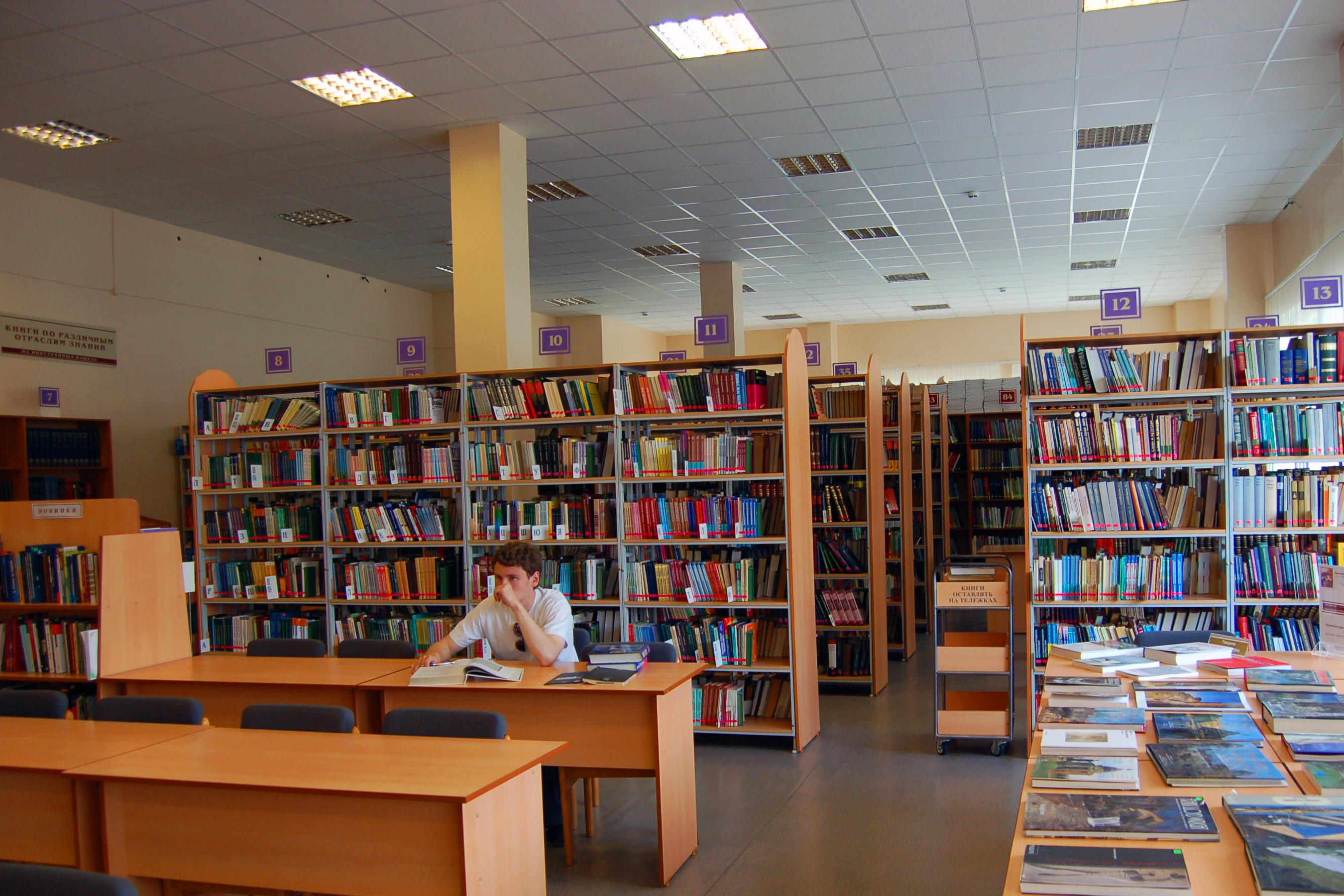 Читальный зал иностранной литературы ЮУрГУ.